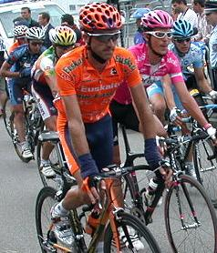 Arrival in Mulhouse : 9th day Tour de France (July 10th, 2005). Haimar Zubeldia (Euskaltel-Euskadi) and more.